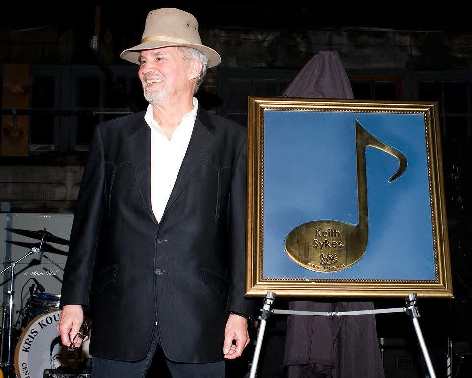 Keith Sykes receives Note on Beale Street